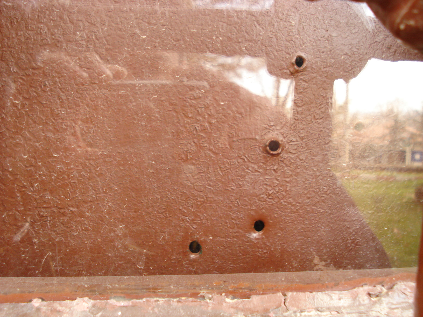 The holes on the window shutters of the Ertuğrul Gazi's grave in Söğüt. These are the bullet signs that the Greek Soldiers who had occupied Söğüt in 1921 plugged to the grave.